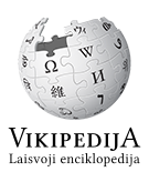 Wikipedia logo 2.0